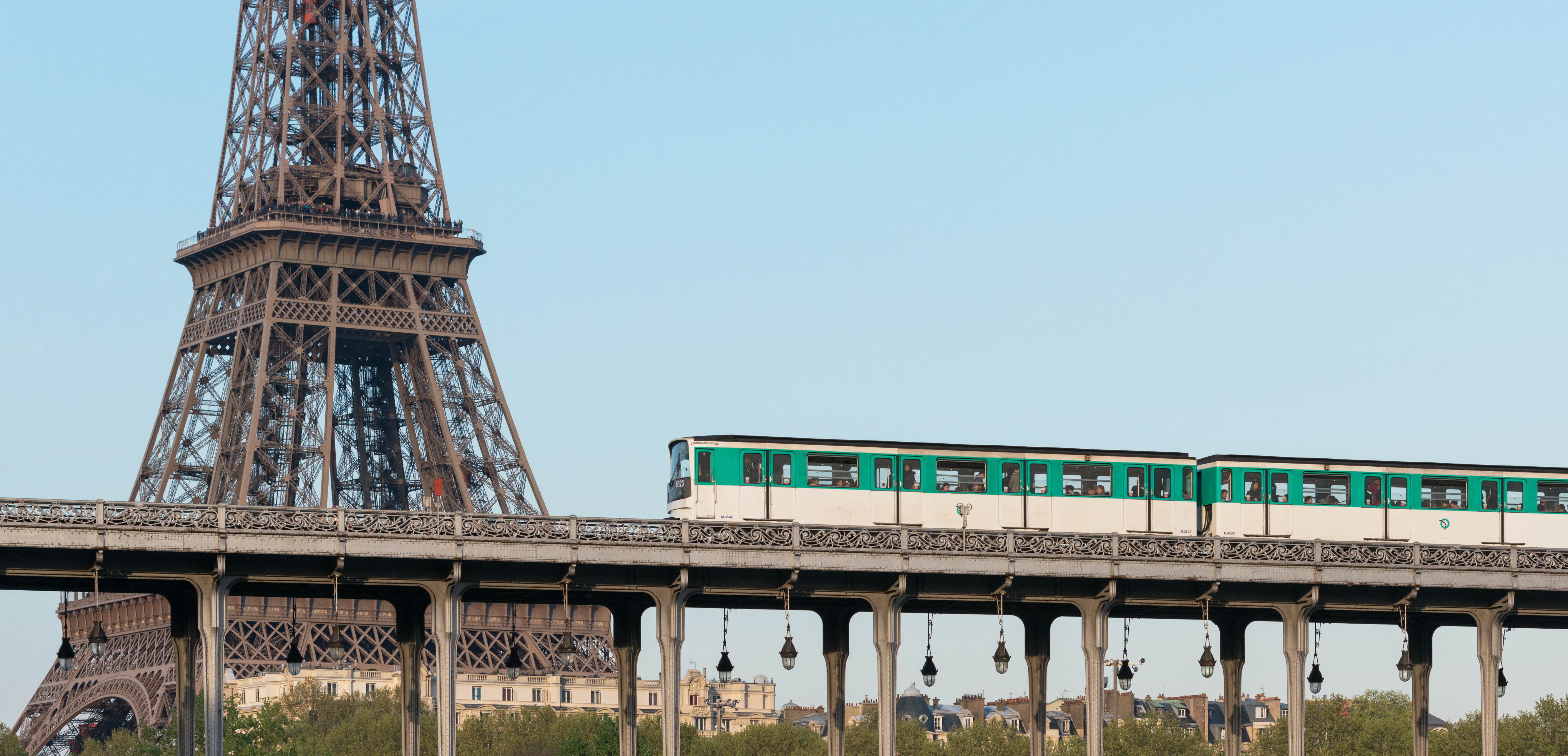 A Paris Métro Line 6 train as it crosses the Pont de Bir-Hakeim to reach the rive droite